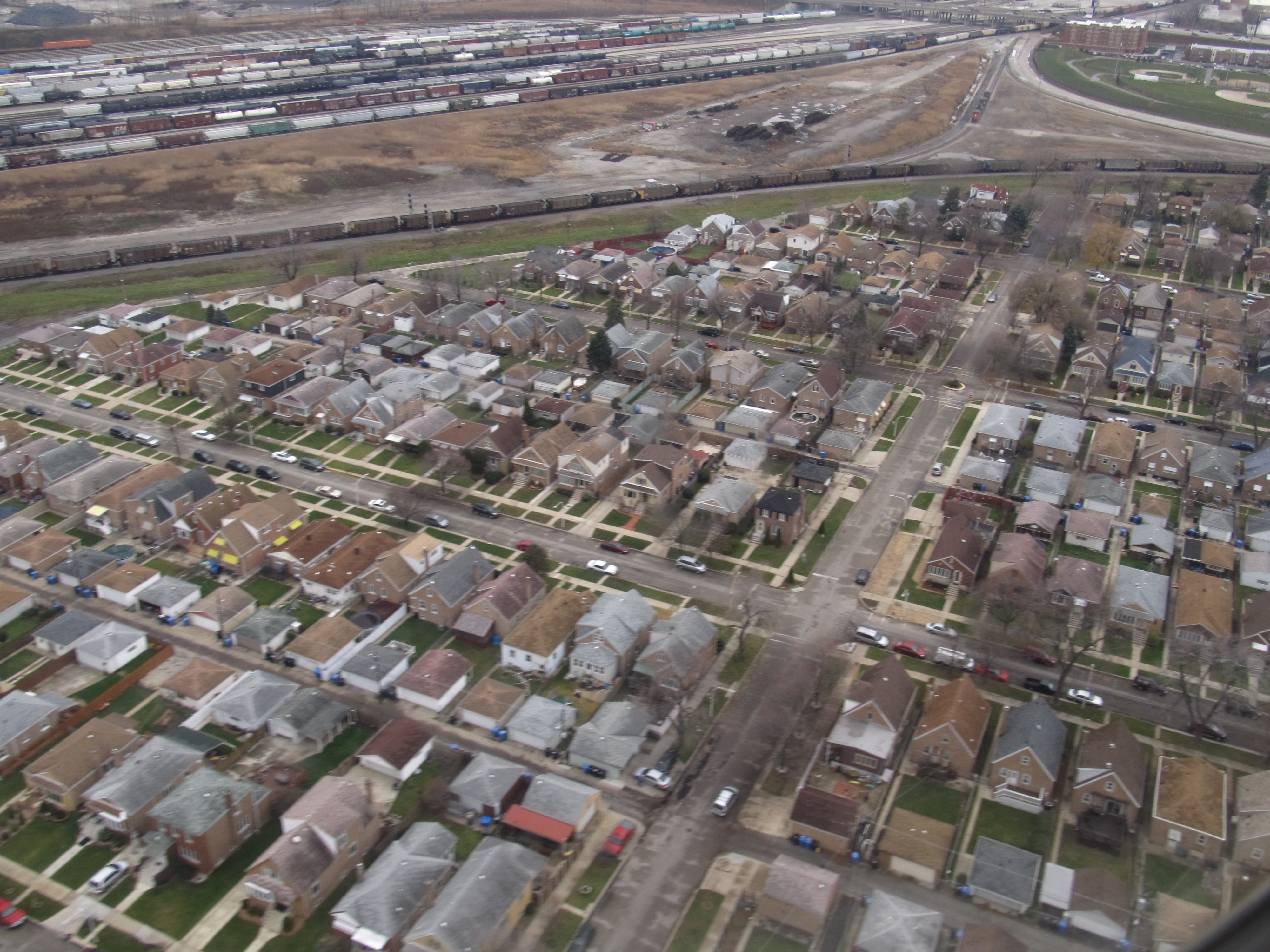 West Lawn, one of Chicago's 77 official community areas, is located on the southwest side of the city. It is considered to be a "melting pot" of sorts, due to its constant change of races moving in and out of the area, as well as the diversity that exists there. It has a small town atmosphere in the big city. West Lawn is home to many Polish-Americans, Irish-Americans, Mexican-Americans, and other people of Latin American and Eastern European origin.